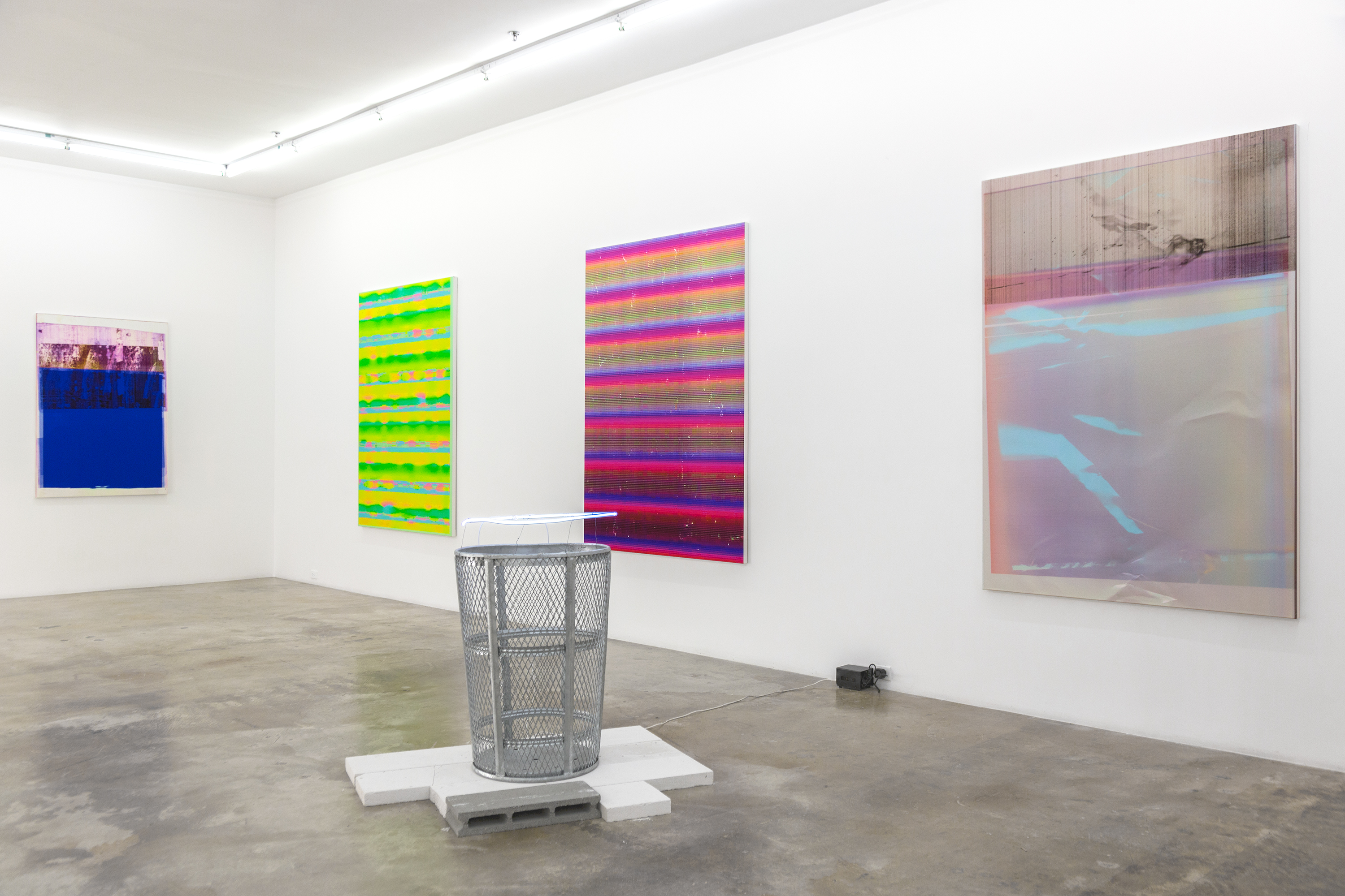 exhibition